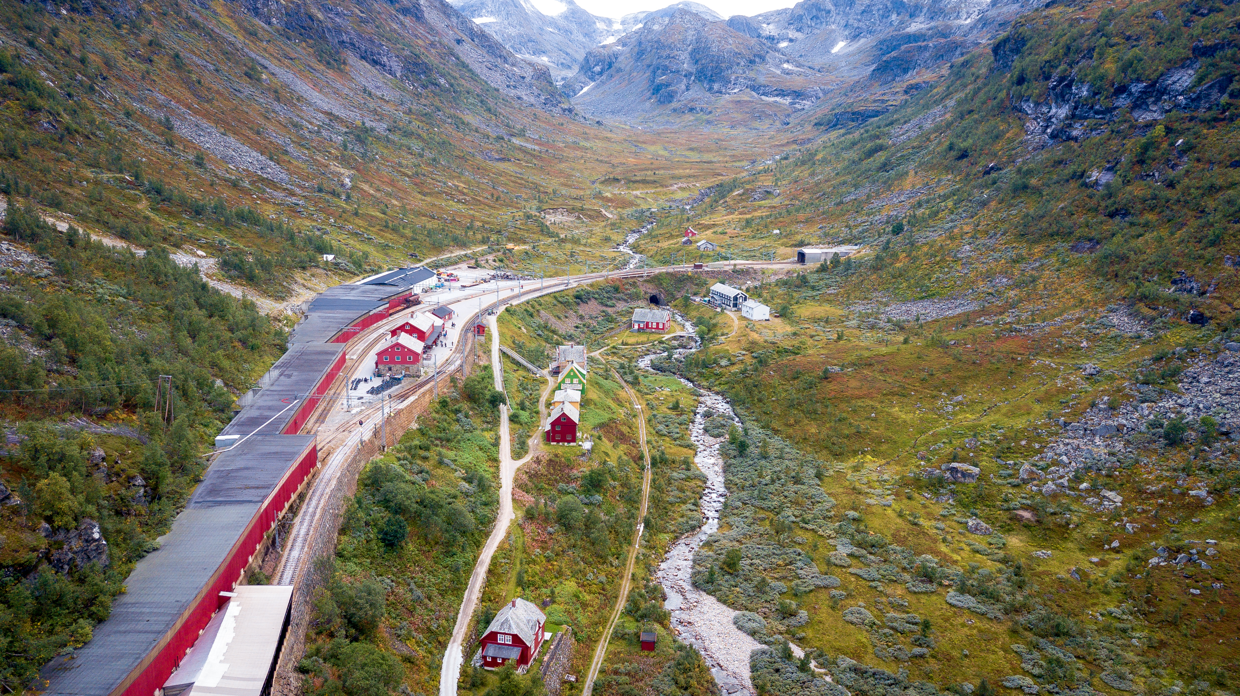 Myrdal on the Bergen railway. Terminus for the Flåm railway and station on the Bergen railway.